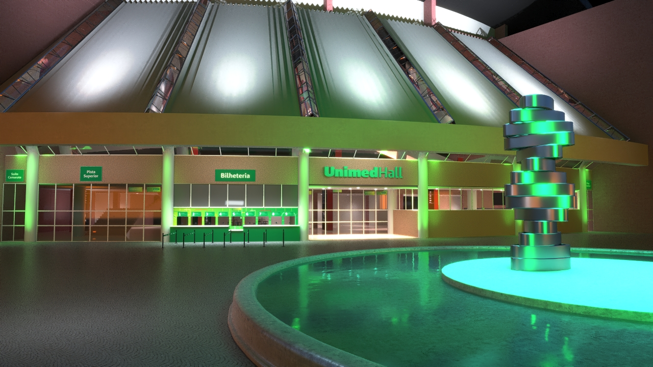 Casa de Eventos UnimedHall